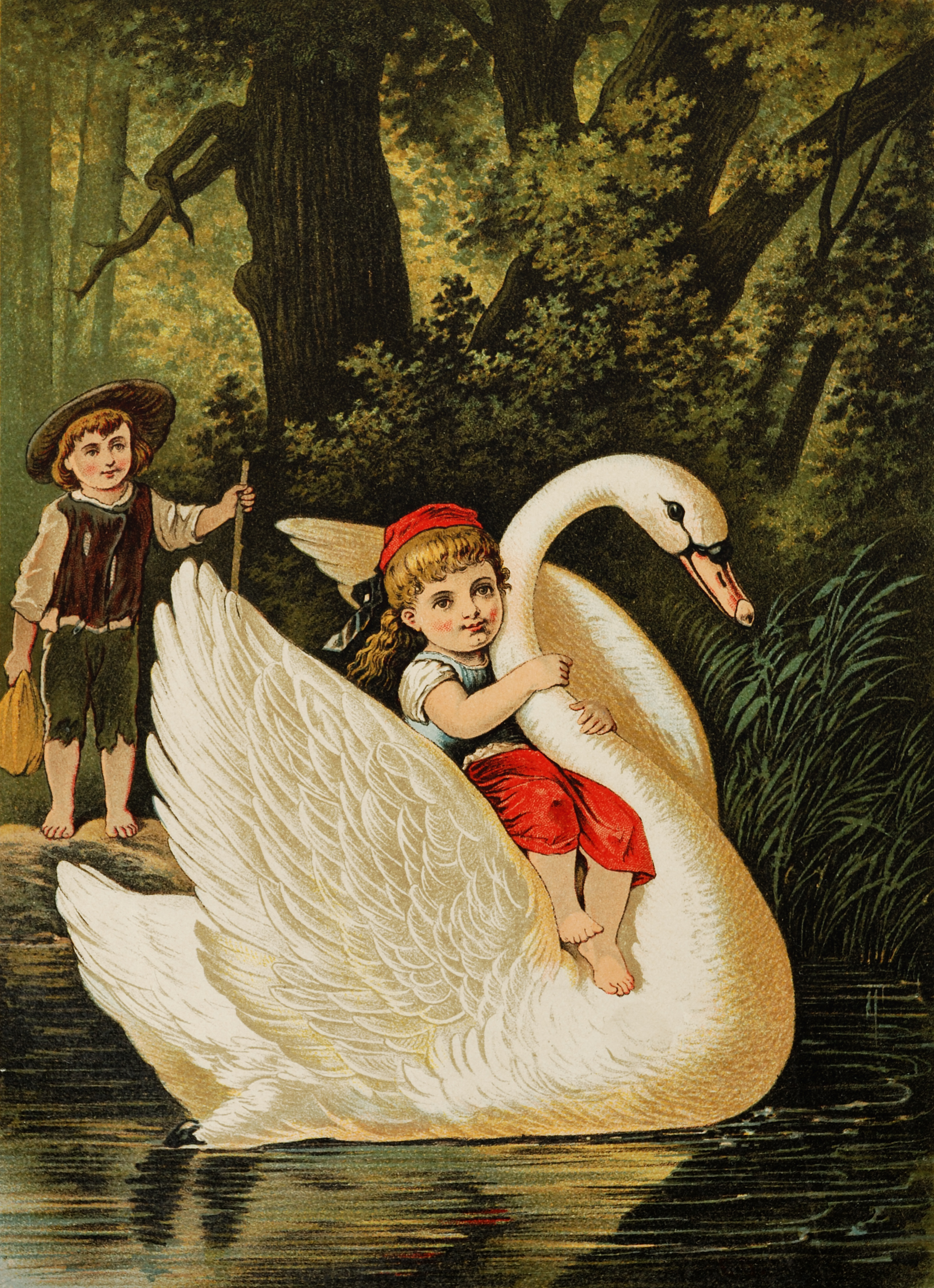 Hansel and Gretel, illustration by Heinrich Leutemann or Carl Offterdinger